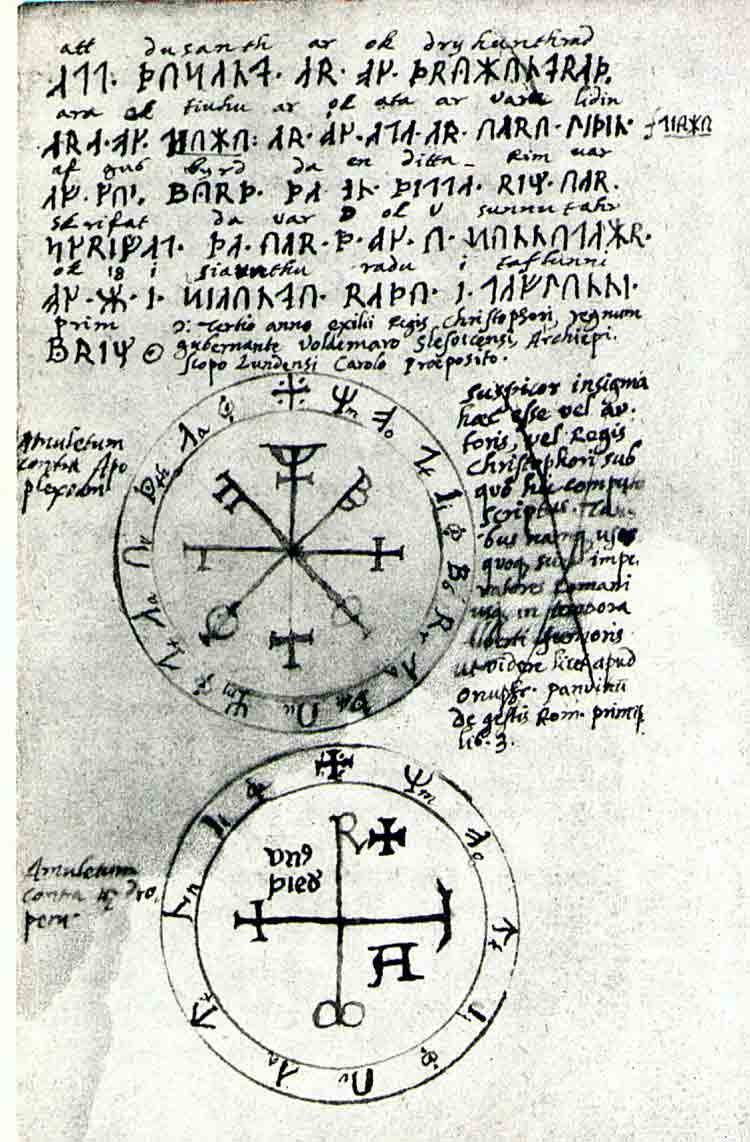 A page of the 17th century manuscript Computus Runicus by Ole Worm, published in 1626. The text is a transcription/description of a runic calendar produced in 1328.